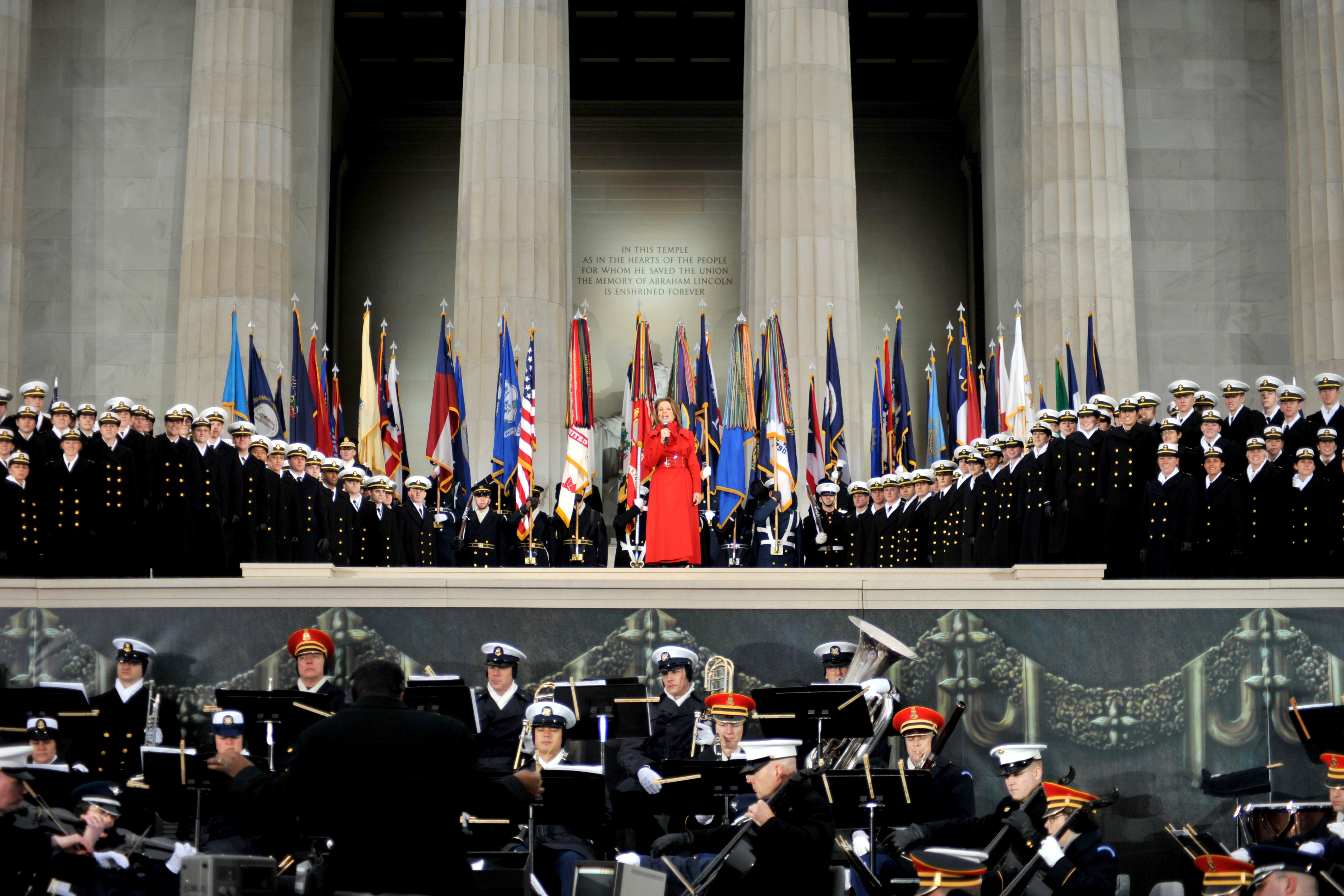 Renée Fleming performs with the U.S. Naval Academy Glee Club during the inaugural opening ceremonies at the Lincoln Memorial on the National Mall in Washington, D.C., Jan. 18, 2009.